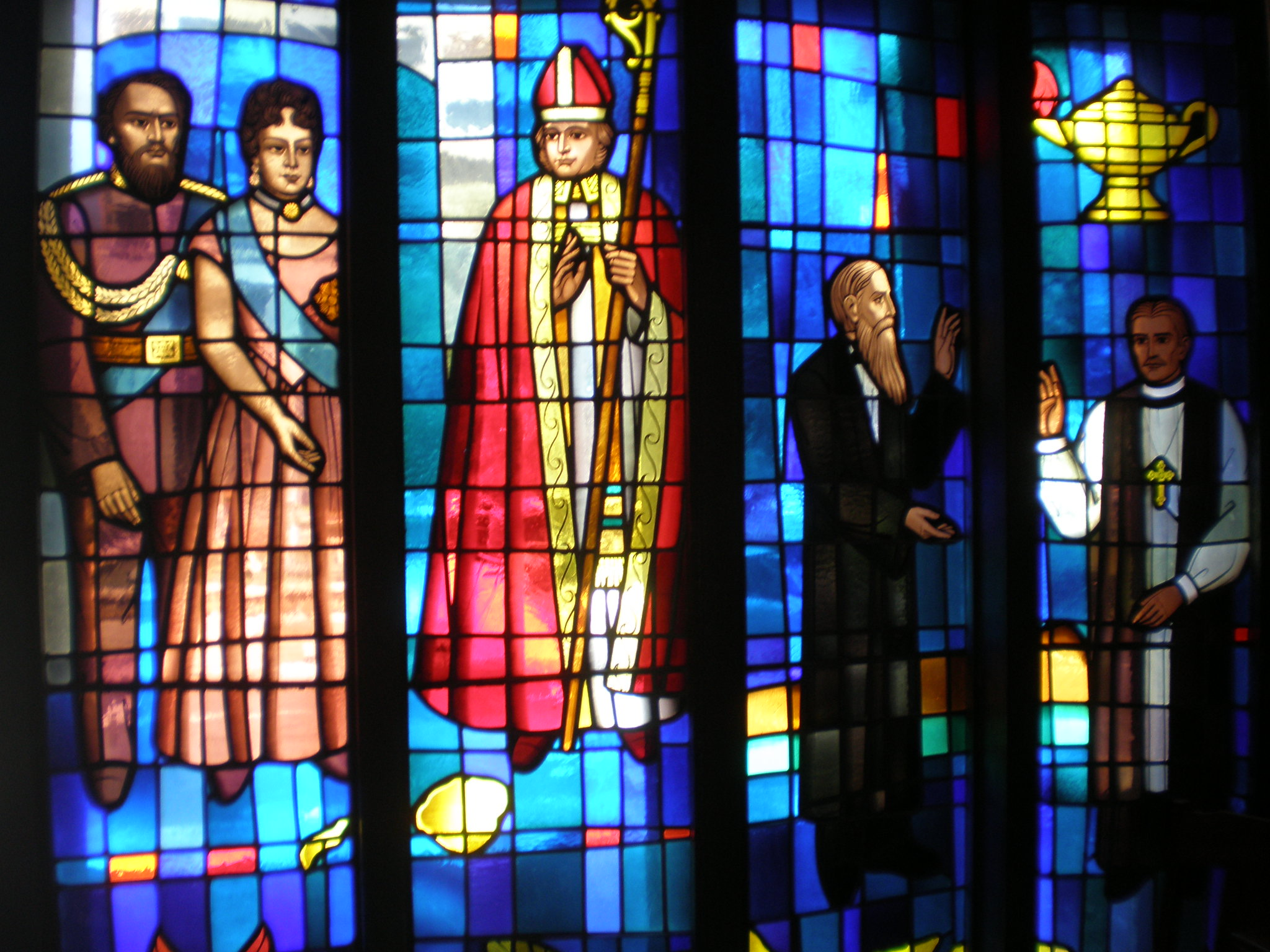 King Kamehameha IV, Queen Emma, Bishop Thomas N. Staley, and Sanford B. Dole in stained glass, St. Andrew's Cathedral in Honolulu, Hawaii, on the National Register of Historic Places